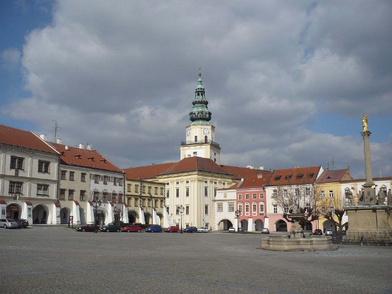 Kromeriz - Big sguere, look towards Arcibishop palace